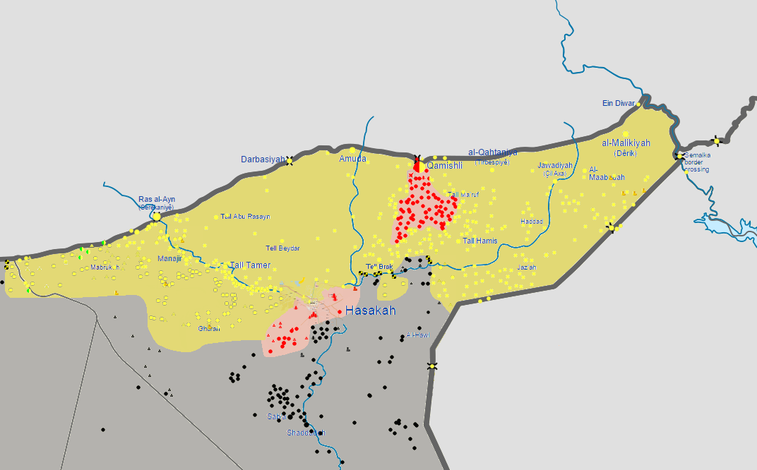 Map of the situation in the Al-Hasakah Governorate after the conclusion of the Al-Hasakah offensive (February–May 2015), on May 31, 2015.